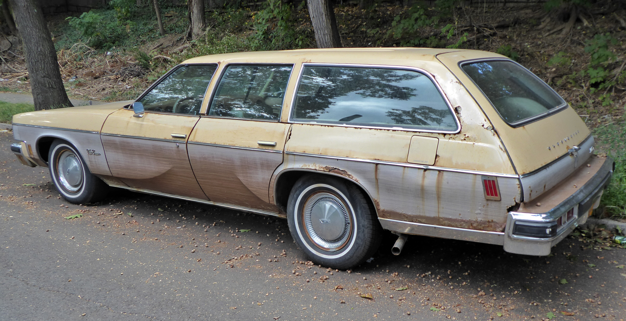 1976 Oldsmobile Vista Cruiser (two seat rows) with the 215hp 4-barrel 455 V8, built in Doraville, GA. The engine is according to the VIN, cannot find any support for this version of the 455 having been offered in the 1976 Vista Cruiser. Last year for this famous engine.